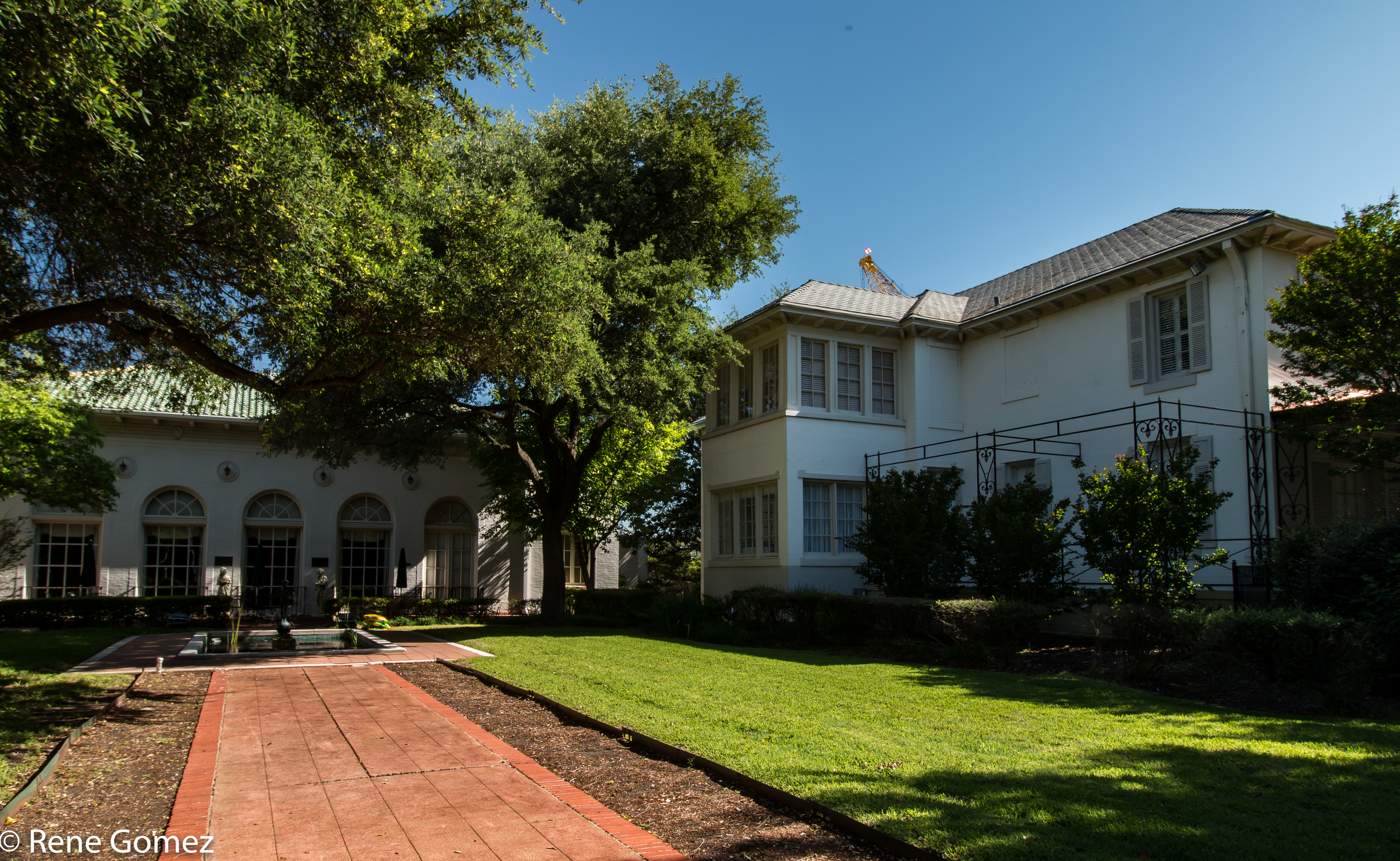 Pictured are the Anna Shelton Hall to the left, the Florence Shuman Hall to the right, and the Tillar Memorial Garden in the foreground of the Women's Club of Fort Worth historic district. Both halls and the garden are contributing properties to the district, and Shuman Hall is a Recorded Texas Historic Landmark.